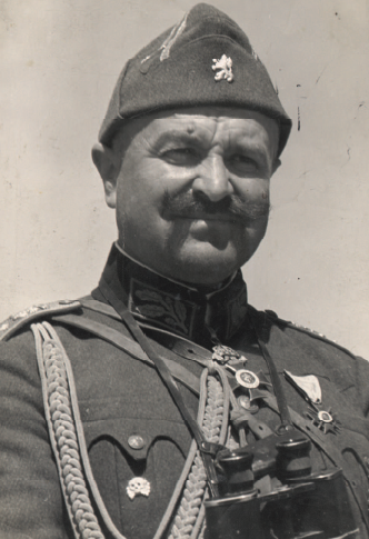 генерал Стефанов - командир на Прикриващия фронт, 1941 г.